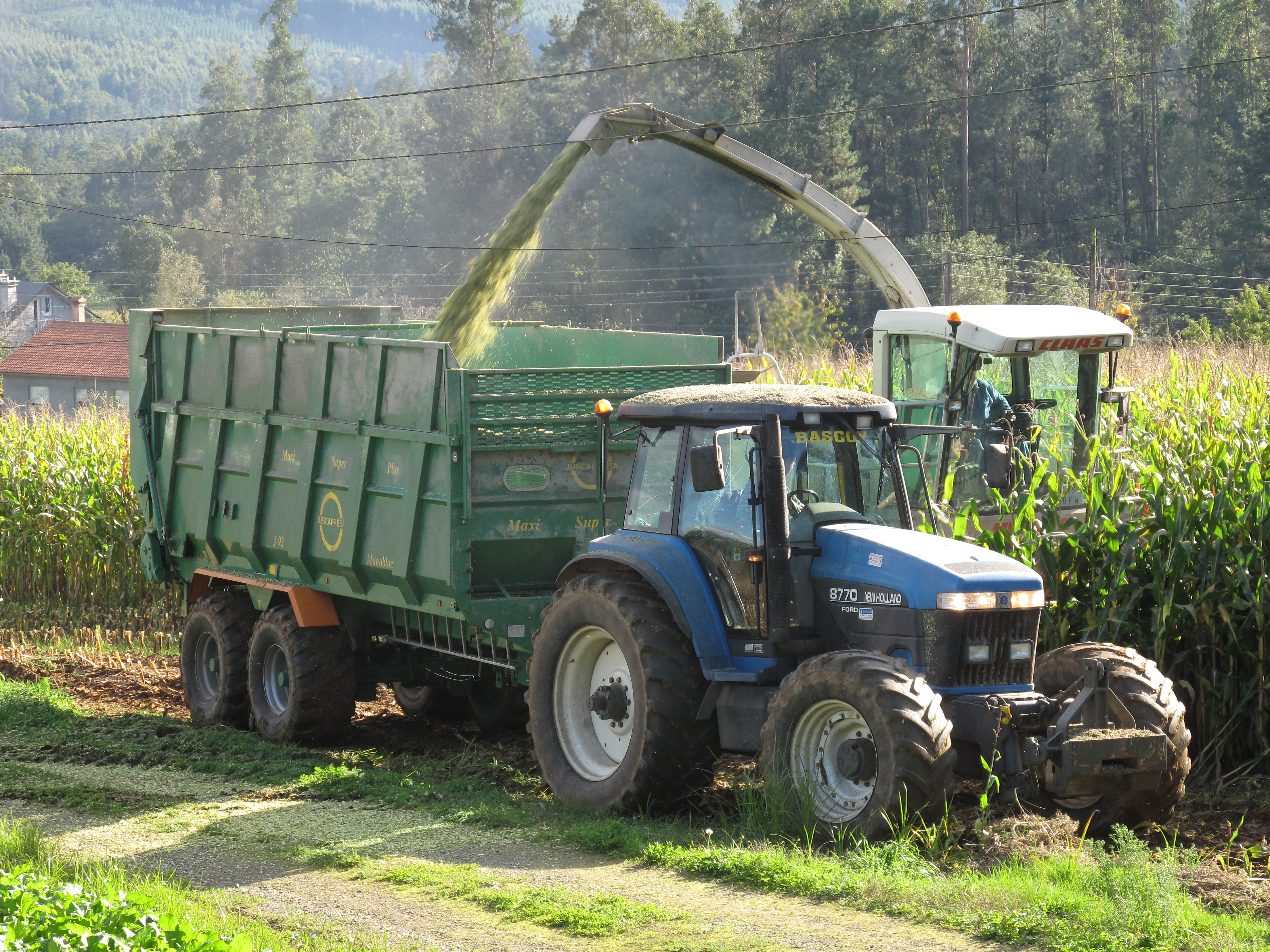 Chopping maize for silage at Vilarromarís, Oroso, Galicia, Spain – Claas Jaguar forage harvester and Ford/New Holland 8770 tractor with Juscafresa tipper trailer (Monobloc J-92 Maxi Super Plus)